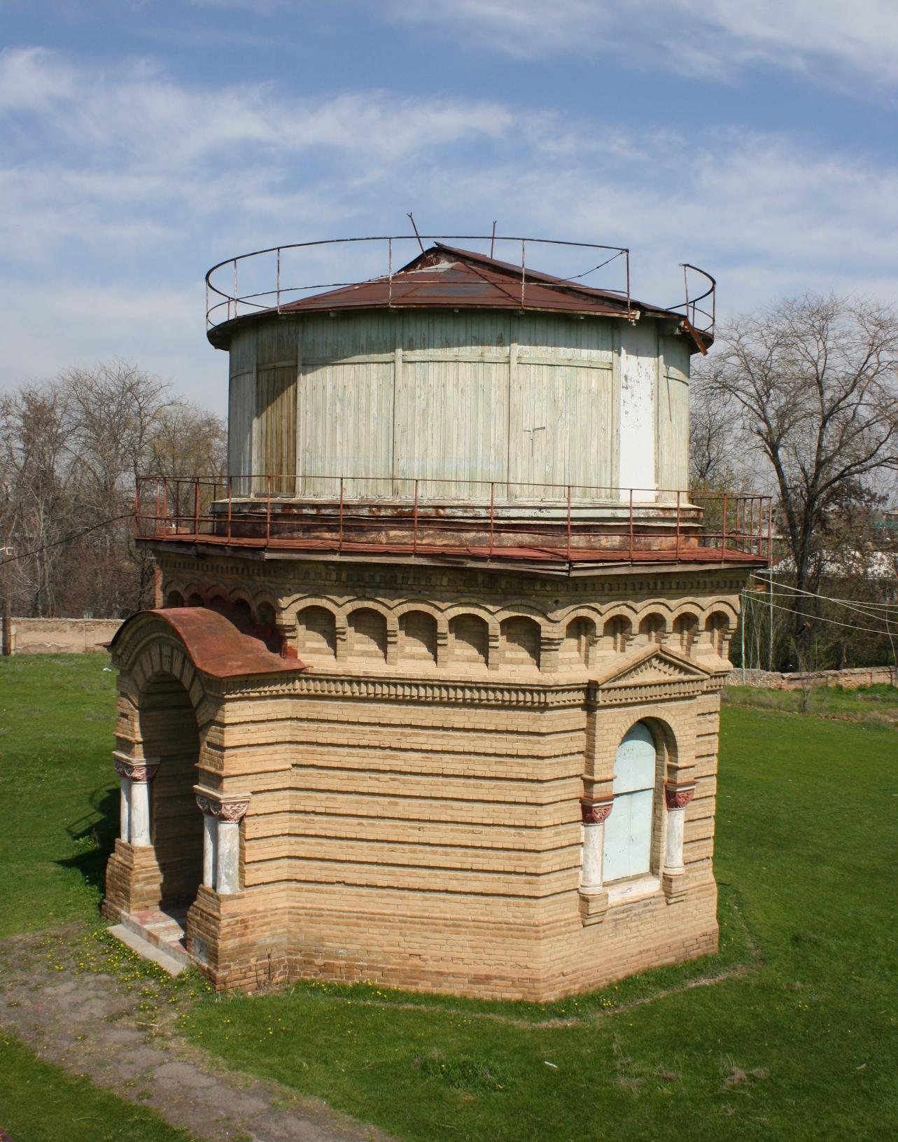 Tashkent. Astronomy Institute. The building constructed in the 19th century for the French telescope